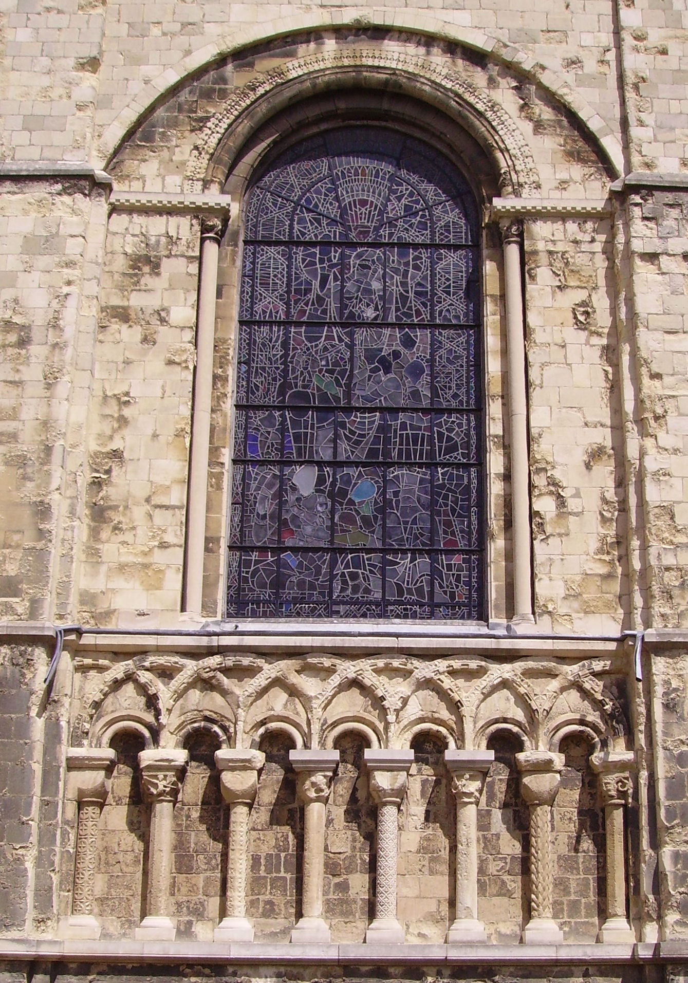 view of Canterbury Cathedral in Canterbury, United Kingdom